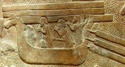 Phoenician ship (hippos). Relief from the palace of Sargon II at Dur-Sharrukin (now Khorsabad). Louvre